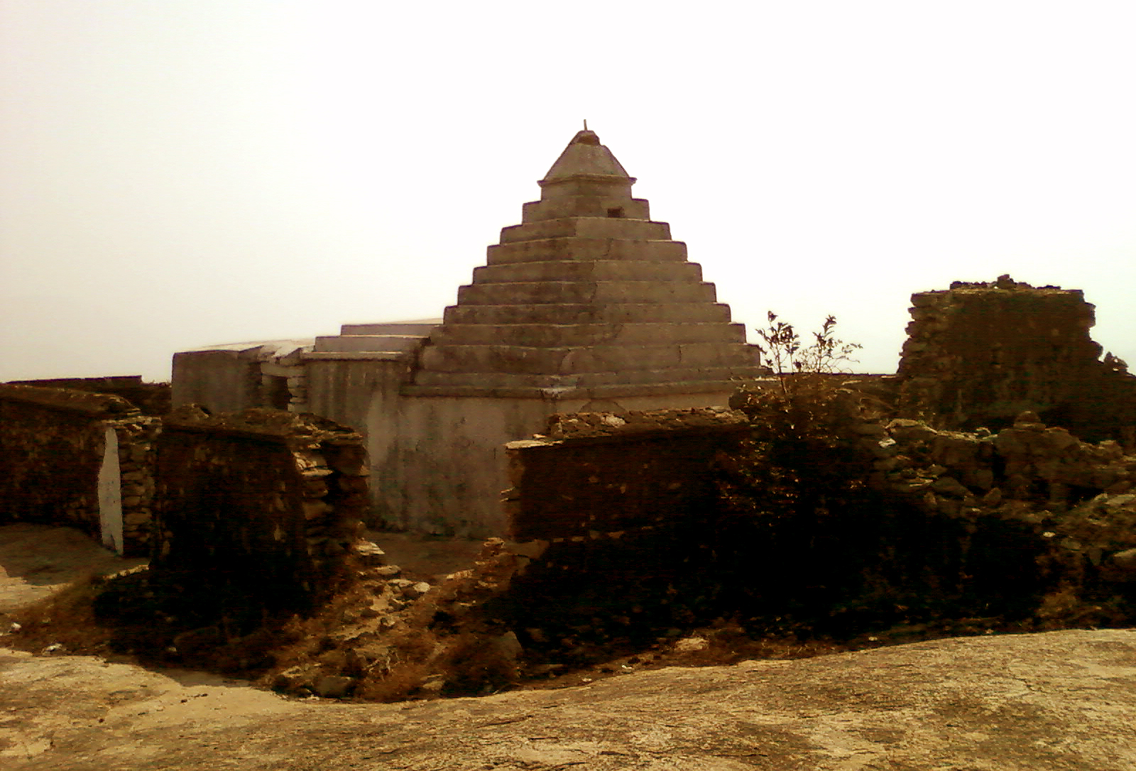 1000 year old Lord Sri Rama temple on Bodhikonda at Ramatheertham in Vizianagaram district